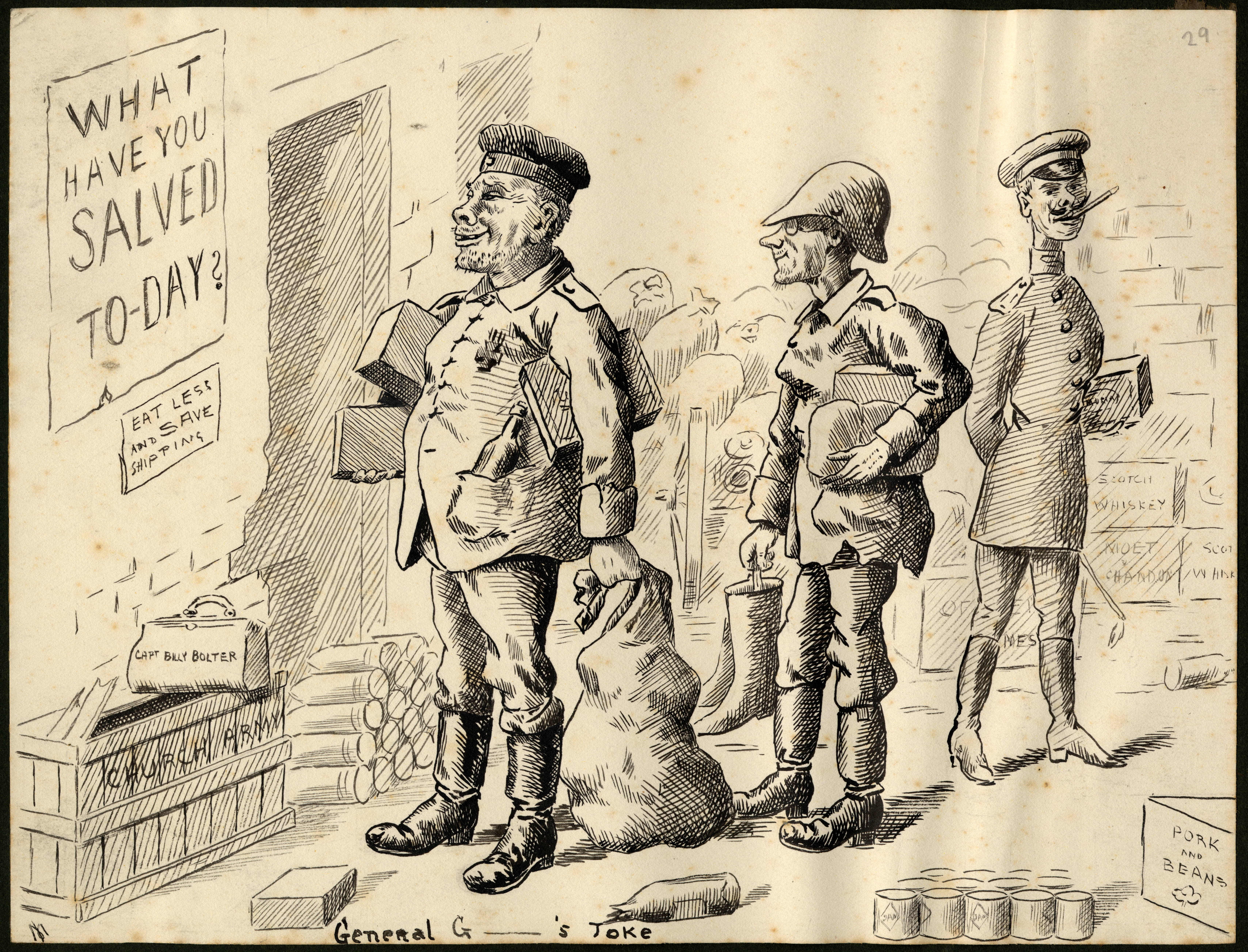 Item is one of 123 pen-and-ink drawings and watercolours from two volumes titled: "Sketches of the War: France/Belgium". The sketches vary from satirical cartoons to more detailed and naturalistic renditions. They are often accompanied by an ironic title and are often signed with the artist's initials, "J.M." The artist's satirical targets include the officers and high command of both combatant sides; the disjuncture between reported and actual events, and the death of civilians as a fact of modern warfare.